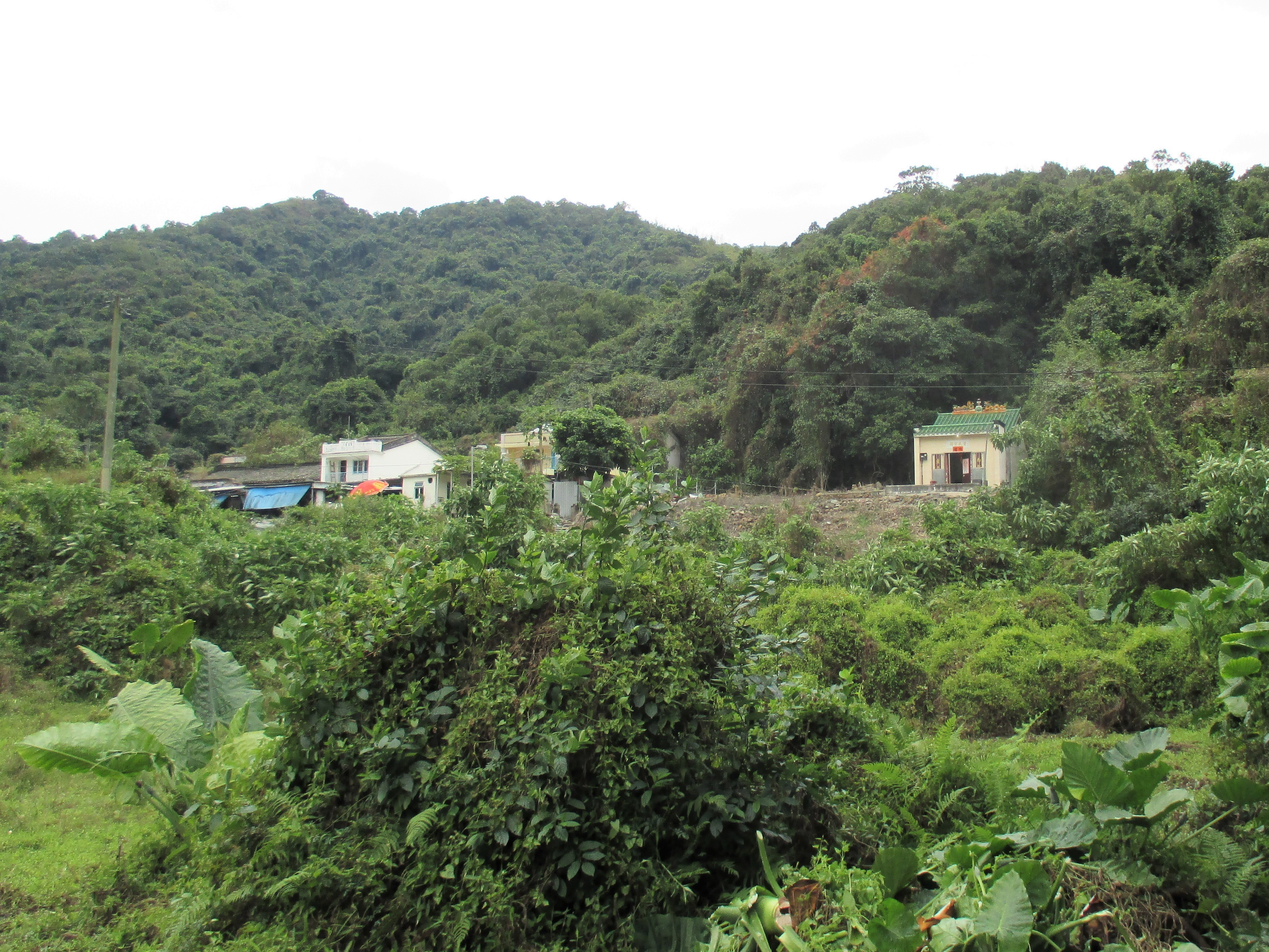 Sam A Tsuen, North District, Hong Kong